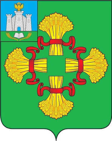 Coat of Arms of Mtsensk (Orel Oblast)